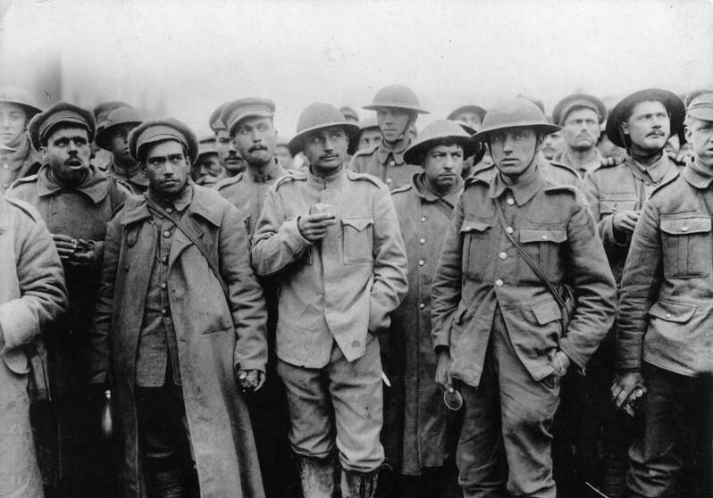 The men are wearing helmets, so the picture is no earlier than 1916. Portuguse troops first arrived at the front in April 1917. This picture is probably from April 1918 after the Battle of the Lys, of which the Battle of Armentieres was a part.